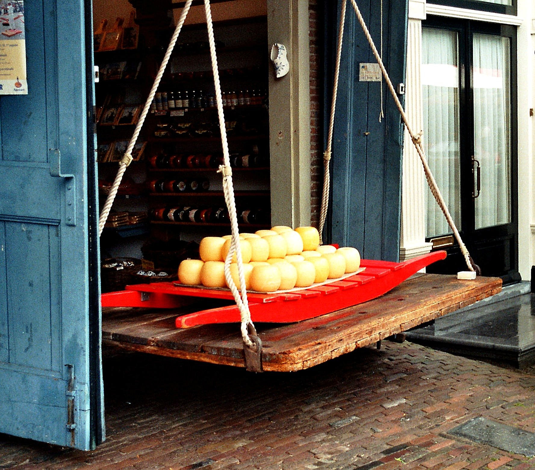 Edam cheese